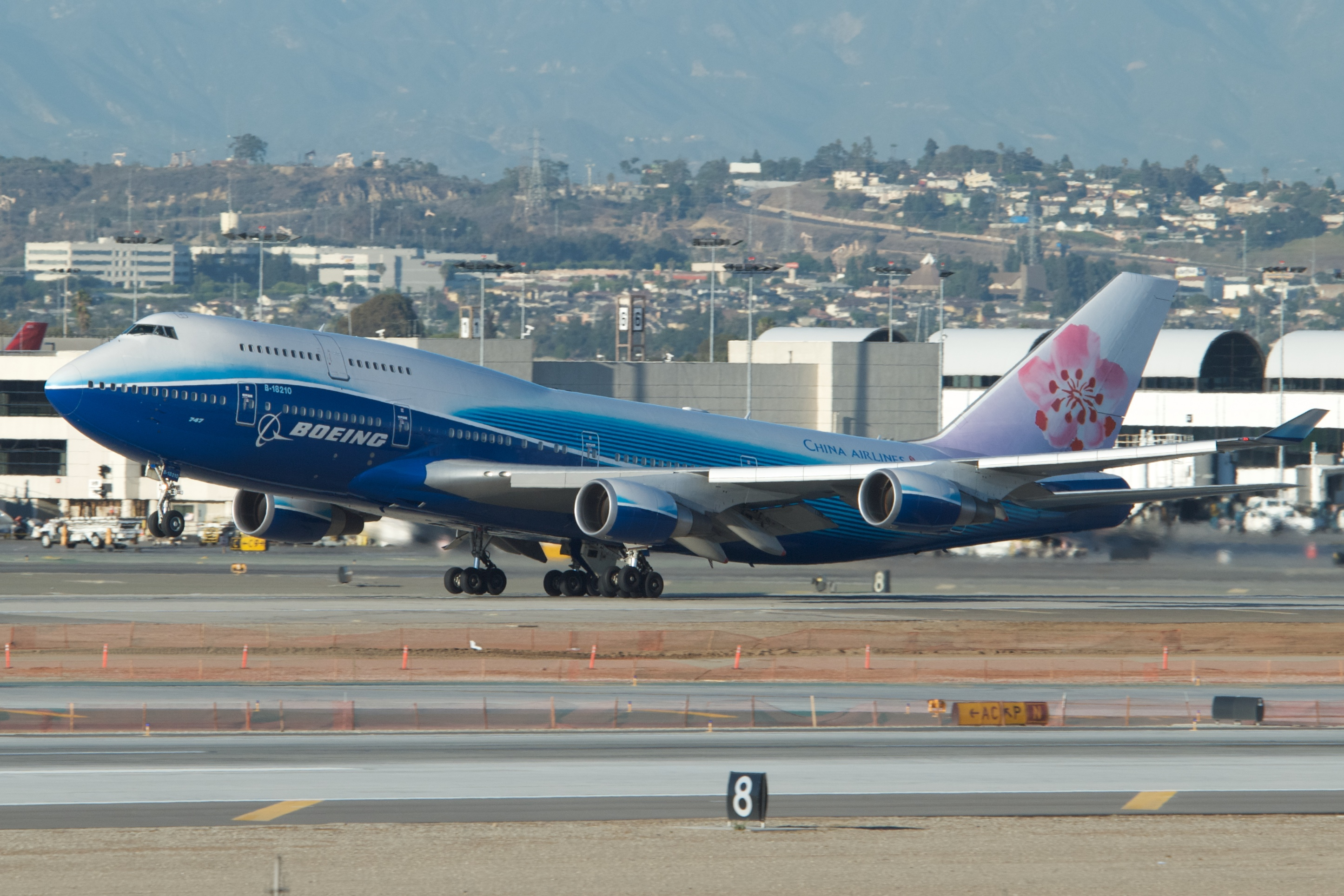 China Airlines B747-400 B-18210